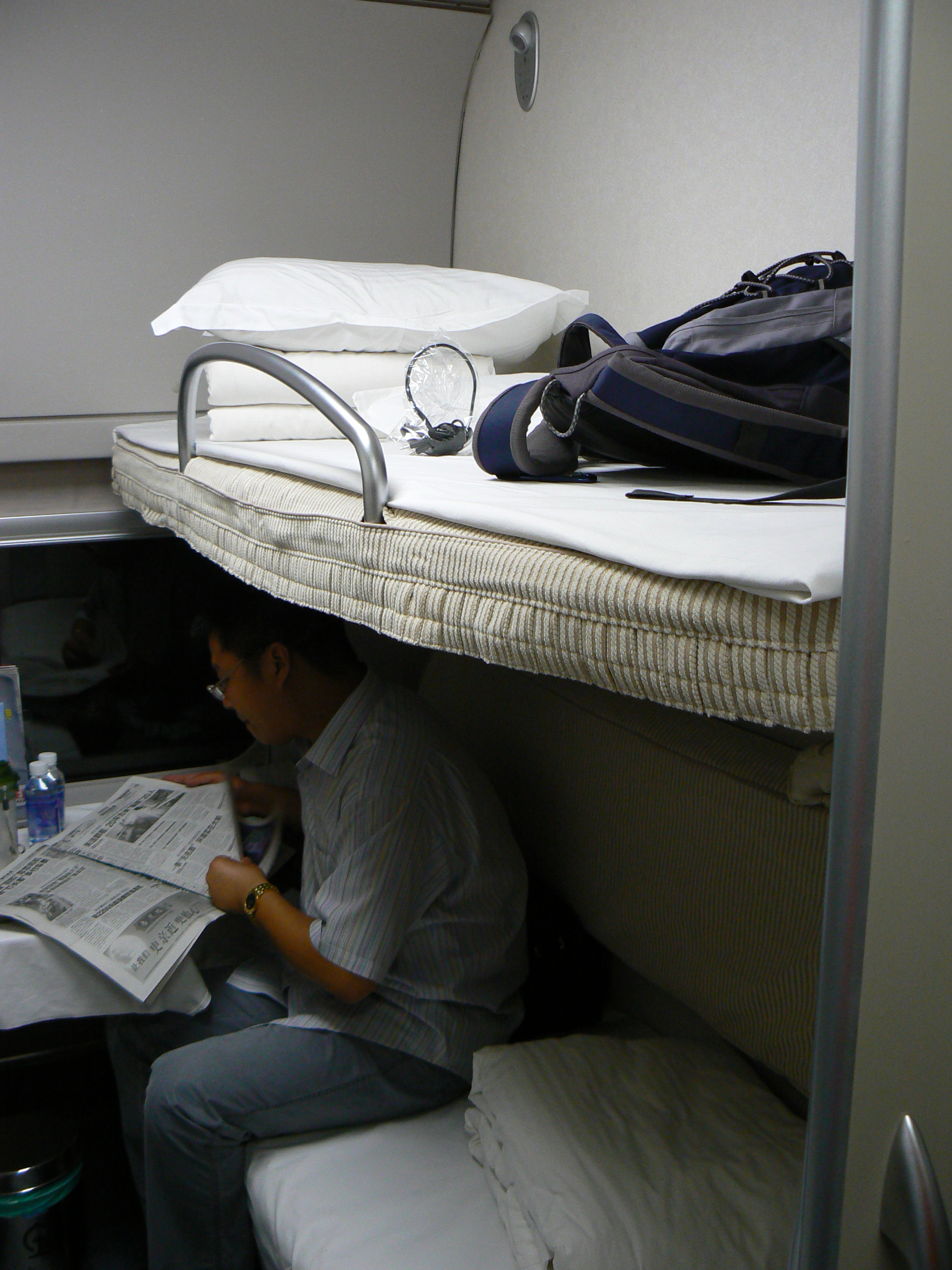 China Railways CRH2E highspeed EMU